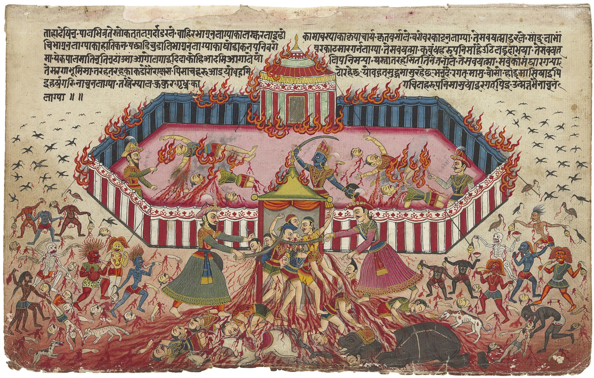 Lot Description An illustration from the Mahabharata Nepal, c. 1800 Depicting the five Pandava brothers dispatching and setting fire to their enemy within a striped tent, with scavengers, vultures and ghouls in the foreground, the relevant text written above Opaque pigments and gold on wasli 7¾ x 12½ in. (19.6 x 31.8 cm.)